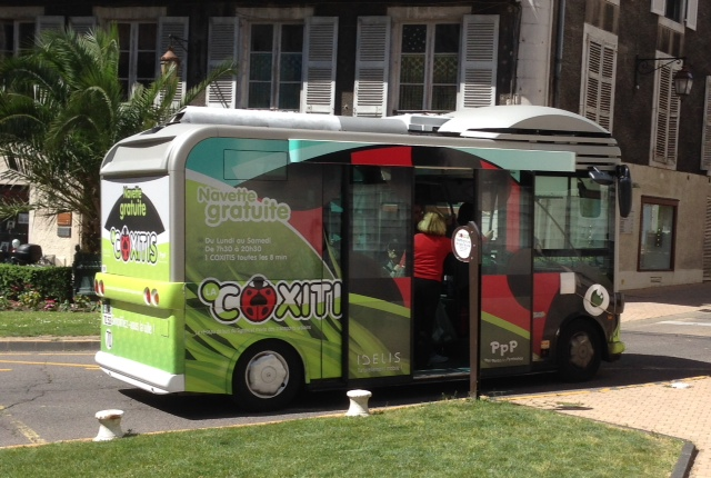 The free shuttle bus, Coxitis, circles the center city.